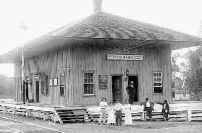 A digital photograph of the original from my personal collection, consisting of the railroad station once located in Girard, Louisiana in Richland Parish.